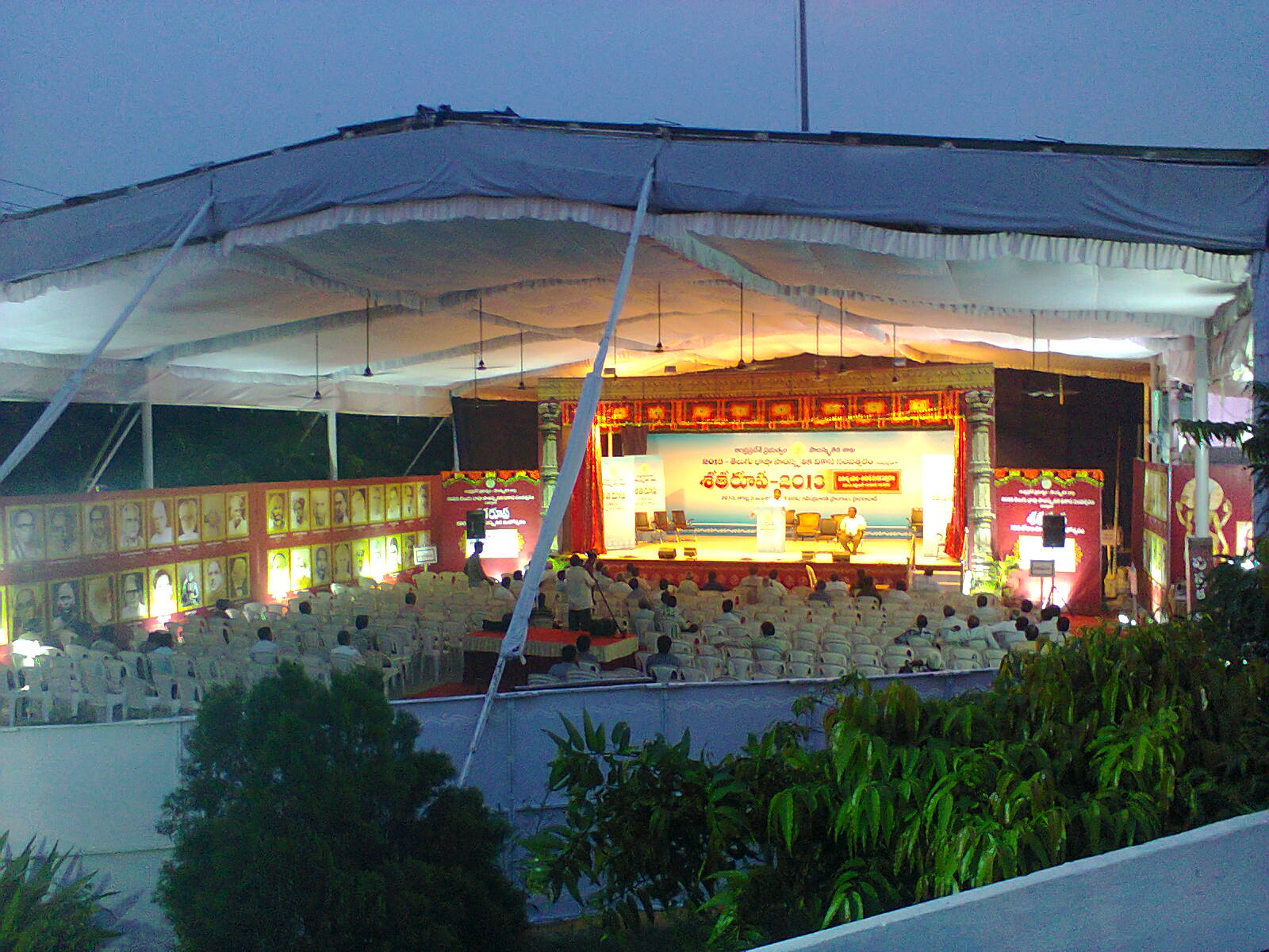 శతరూప-2013 ప్రాంగణం